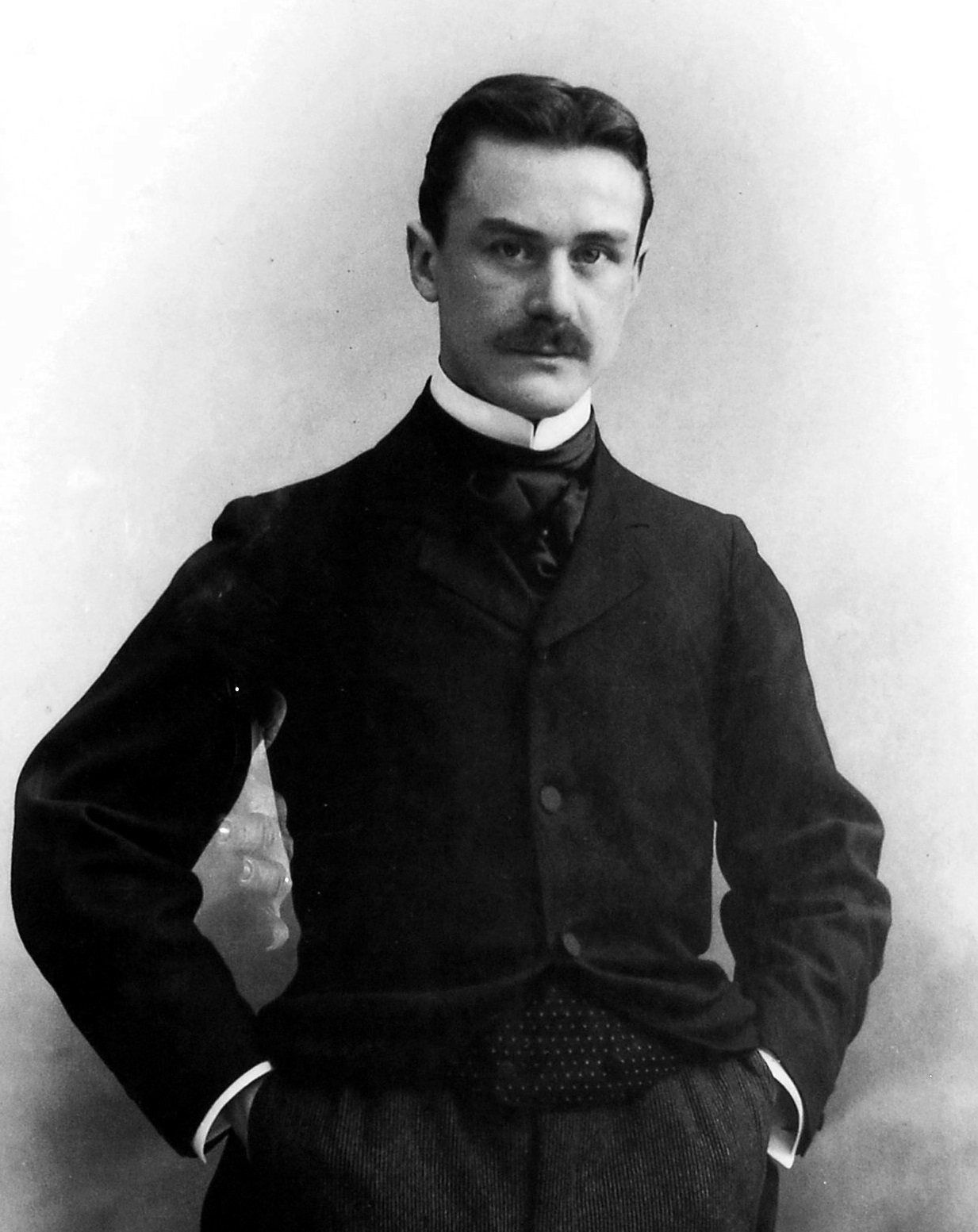 Portrait of Thomas Mann in 1900